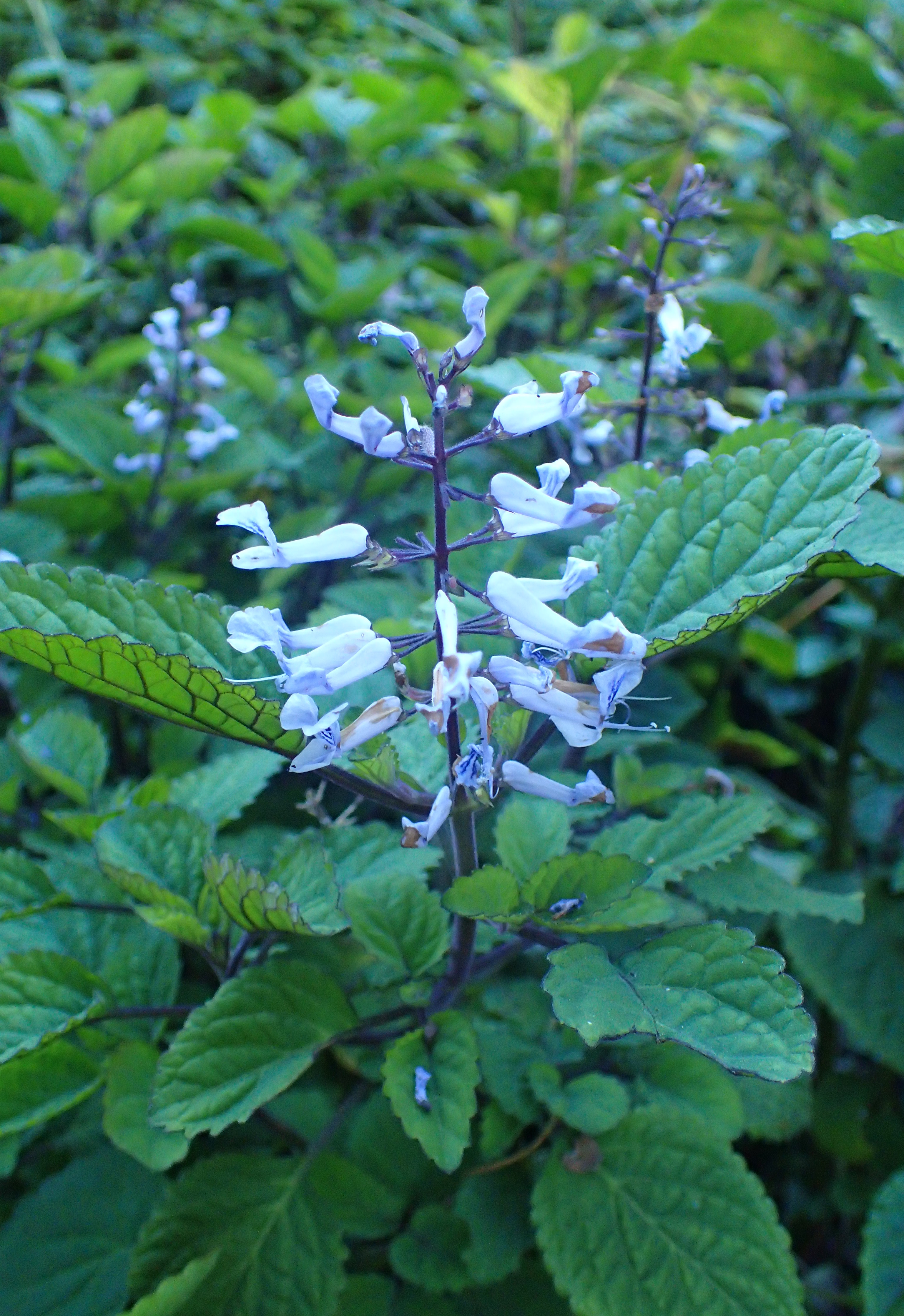 Plectranthus ciliatus in the San Francisco Botanical Garden